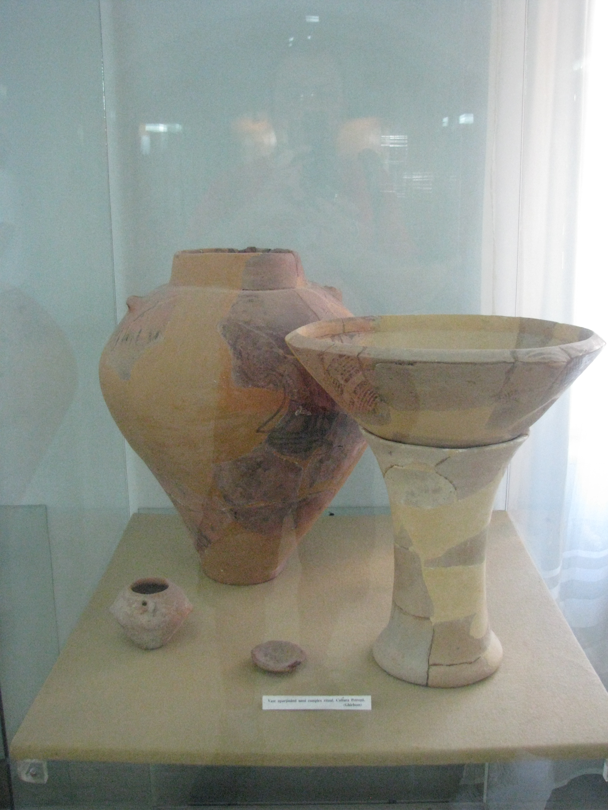 Alba Iulia National Museum of the Union 2011